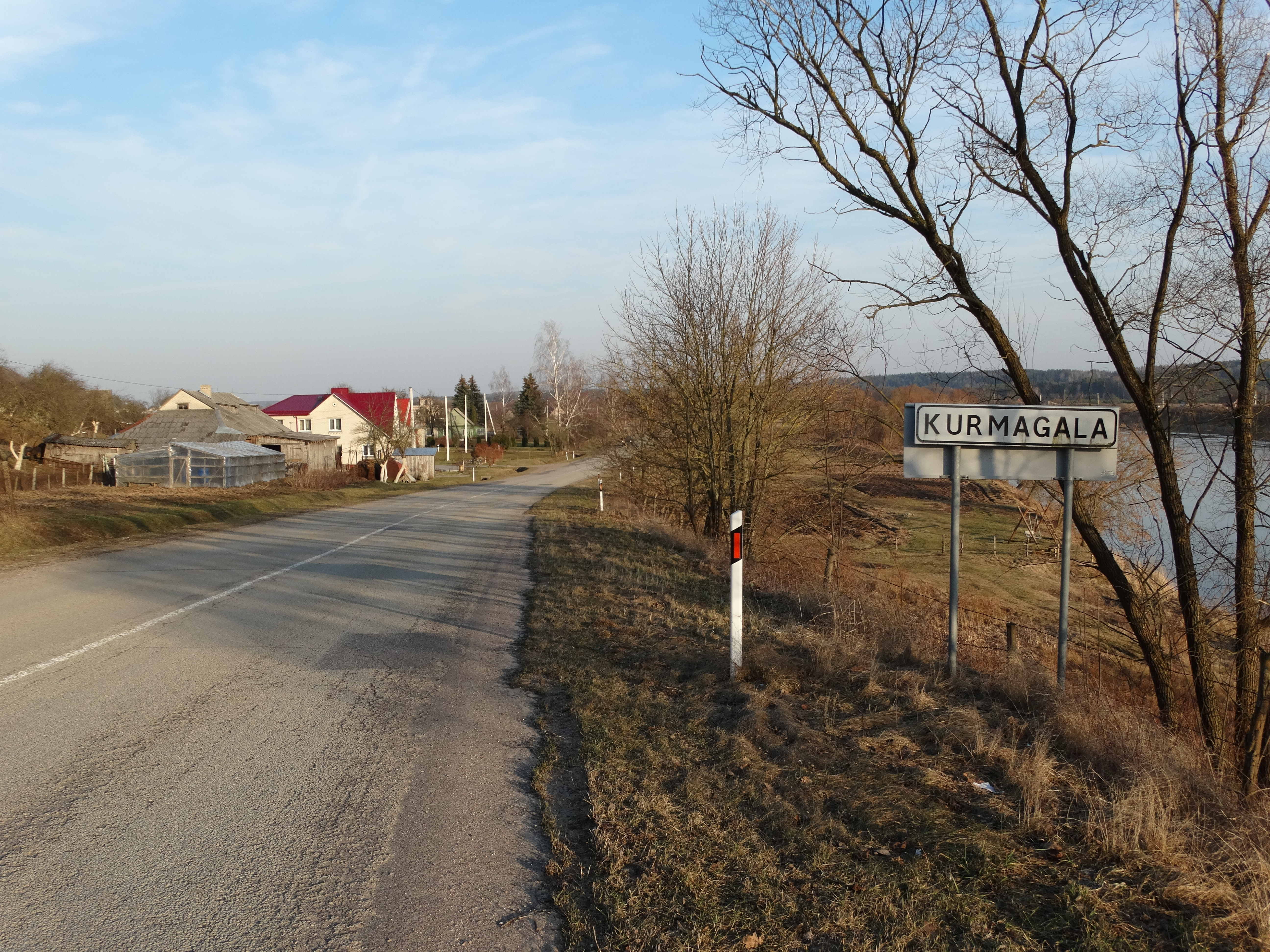 Kurmagala, Jonava district, Lithuania